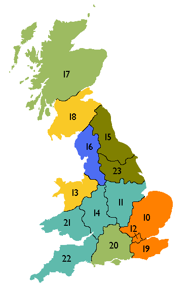 Map of DNO licence areas, numbered using distributor IDs, and coloured by DNO